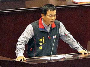 Lai Shih-bao